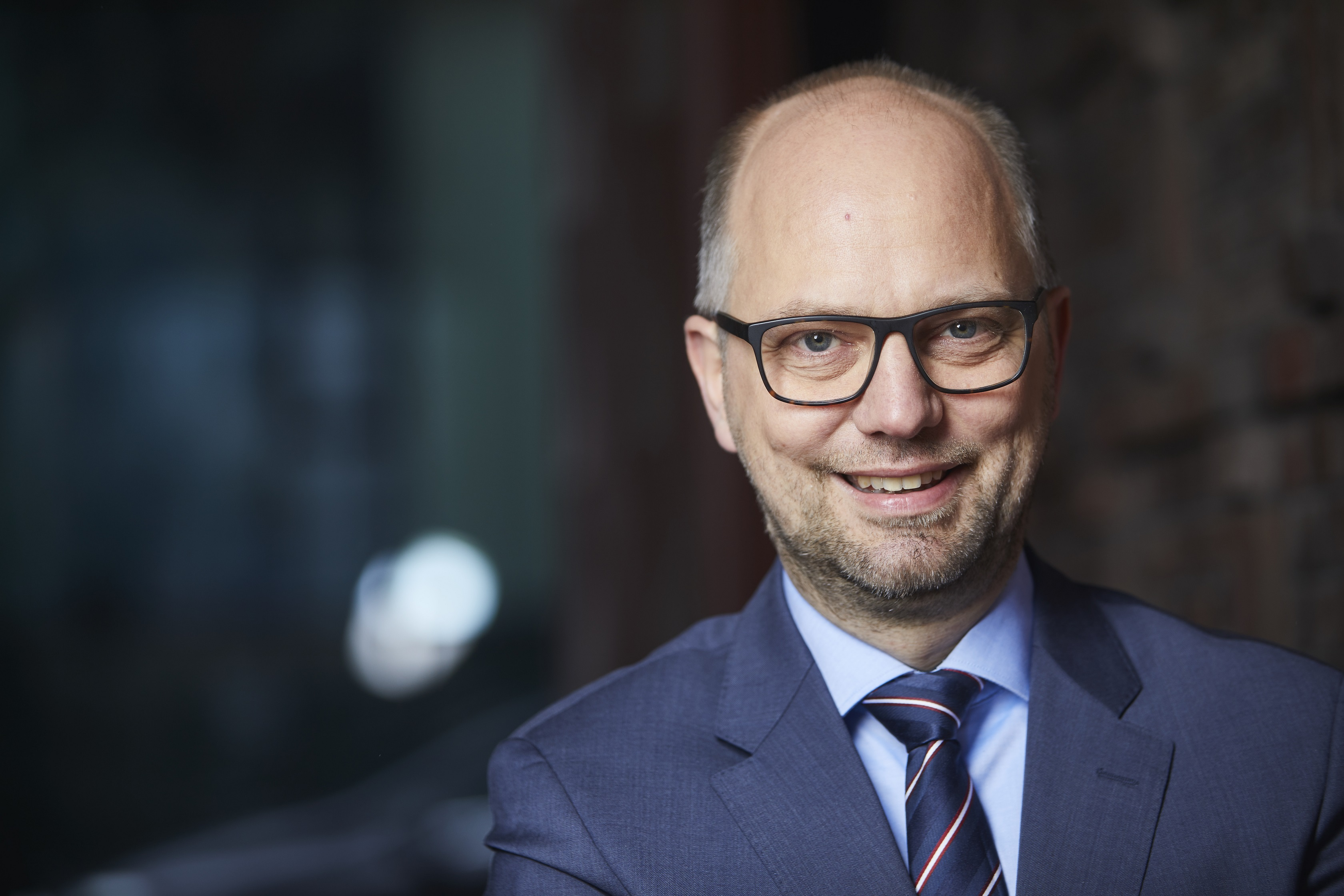 Hamburg, GER, 14.12.2017: Till Steffen, minister of justice for the city of Hamburg, Die Gruenen.